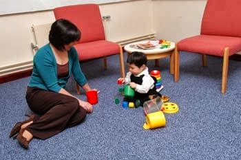 A child exploring comfortably due to having a secure attachment with caregiver.